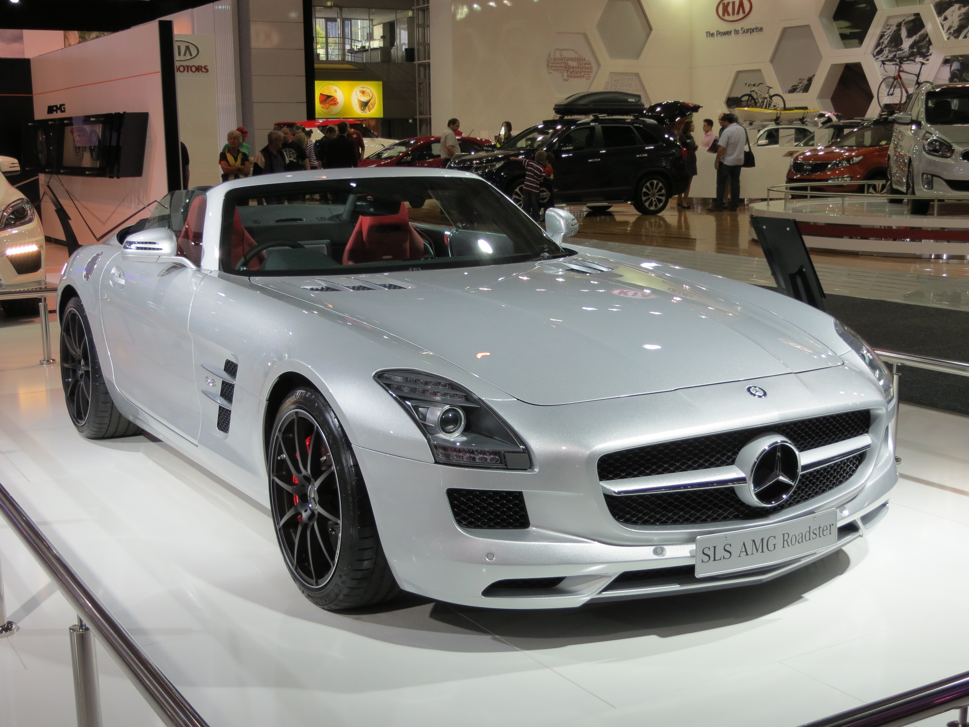 2012 Mercedes-Benz SLS AMG (R 197) roadster. Photographed at the 2012 Australian International Motor Show, Sydney, New South Wales, Australia.